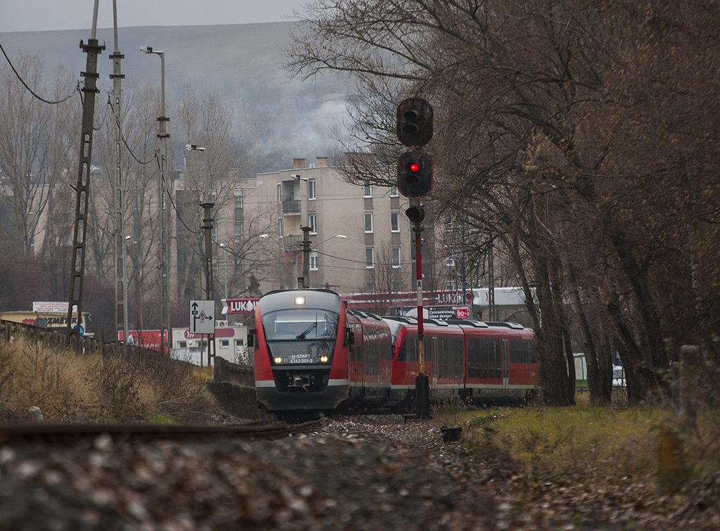 Személyvonat Lábatlan és Nyergesújfalu között